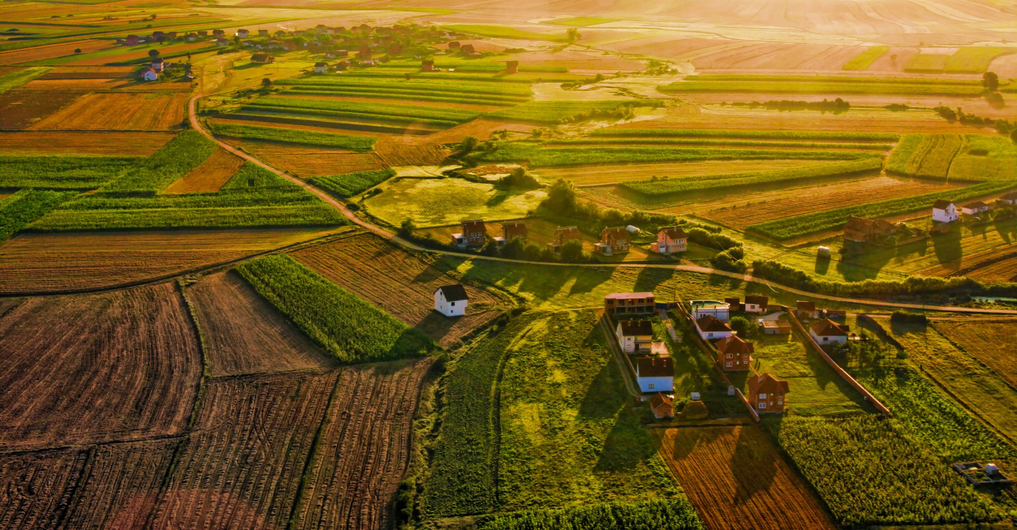 Duke ateruar